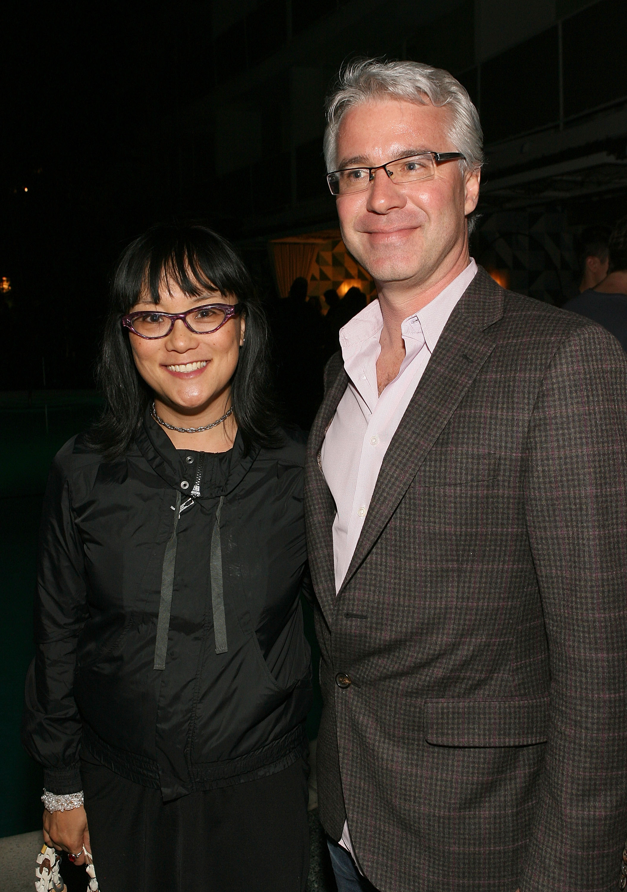 BEVERLY HILLS, CA - MARCH 09: Director Mina Shum and producer Stephen Hegyes attend The Canadian Film Centre cocktail reception celebrating the Telefilm Canada Features Comedy Lab held at Avalon Hotel on March 9, 2011 in Beverly Hills, California. (Photo by Jesse Grant/WireImage)